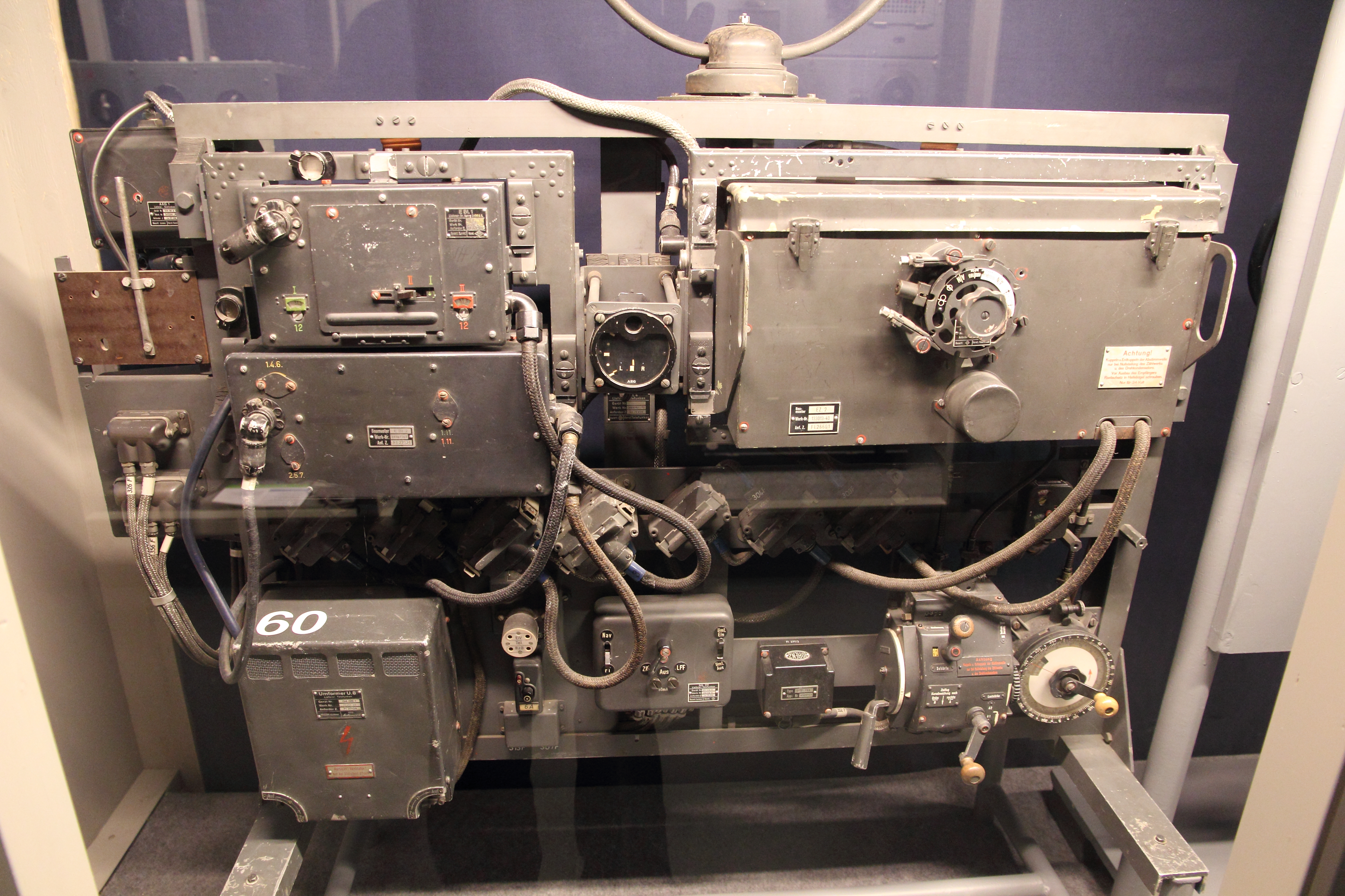 German PeilG V radio direction finder and FuBl 1 instrument landing systems from World War 2. Photographed in the Finnish Air Force signals museum.